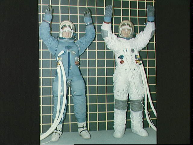 Description: Two astronauts check mobility of two different types of Apollo space suits. Astronaut James B. Irwin (on left) wears the original Block II Apollo pressure suit which the Apollo 204 Review Board recommended by changed. Astronaut John S. Bull (on right) wears the new Apollo pressure suit which incorporates changes recommended by the board. The new suit worn by Bull has an outer layer of Beta Fabric, a non-flammable fiber glass cloth. UID: SPD-JSC-S68-15931